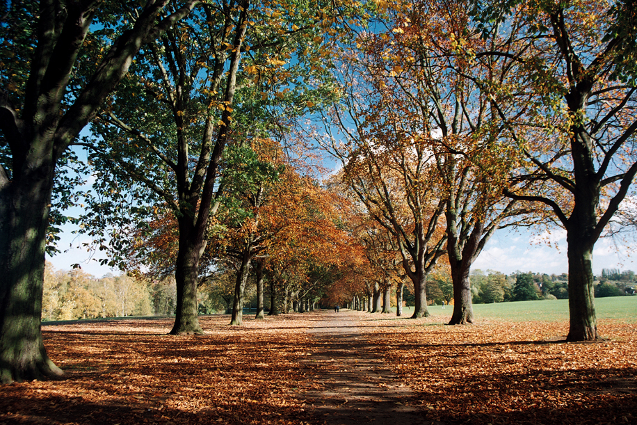 Photograph of Abington Park